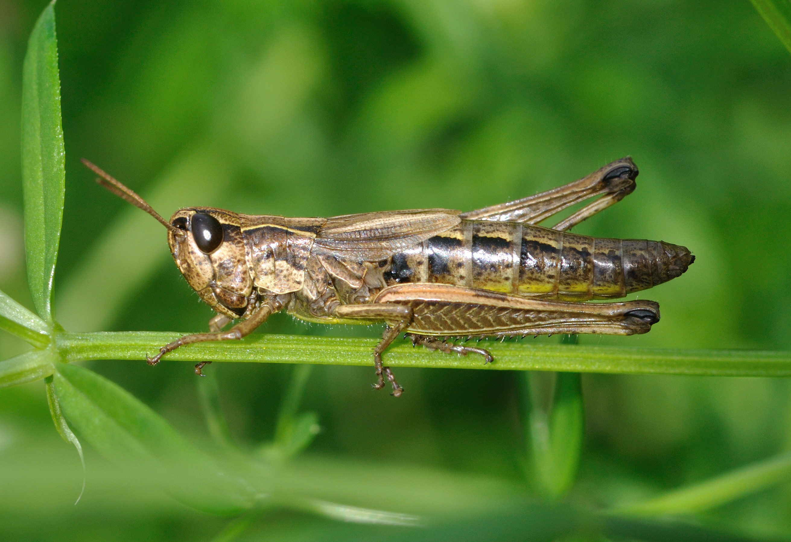 Female Meadow Grasshopper (Chorthippus parallelus), brown variety, in Oberursel, Germany.